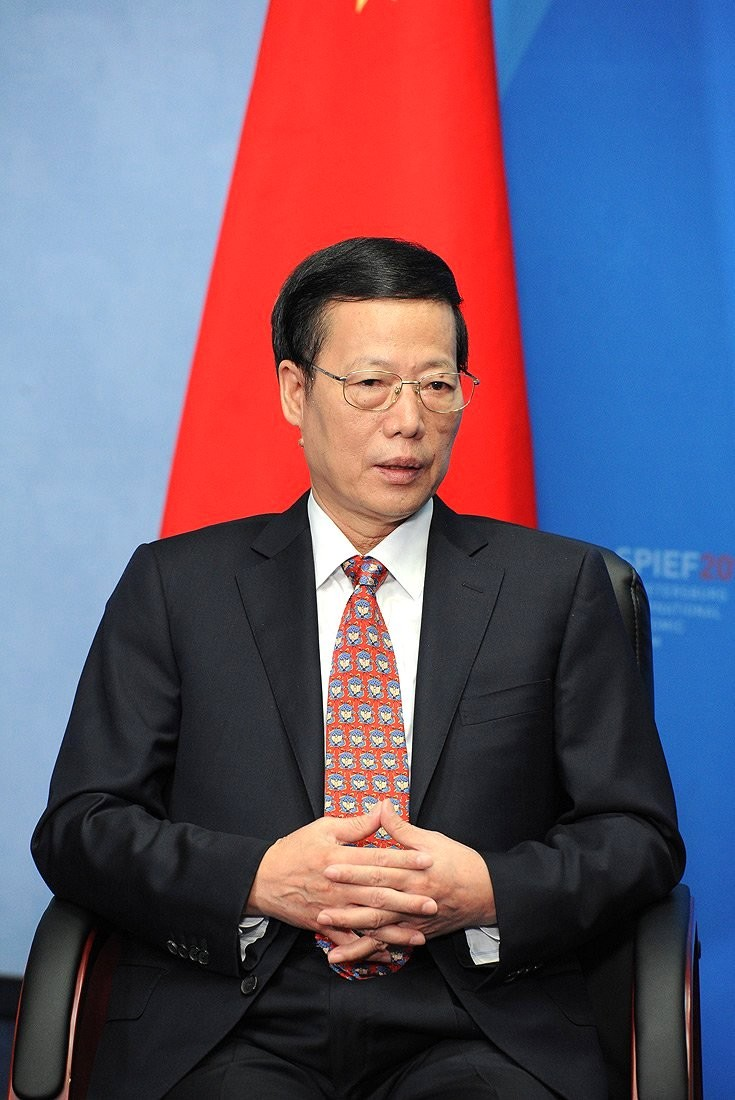 Zhang Gaoli (Saint Petersburg, 2013)